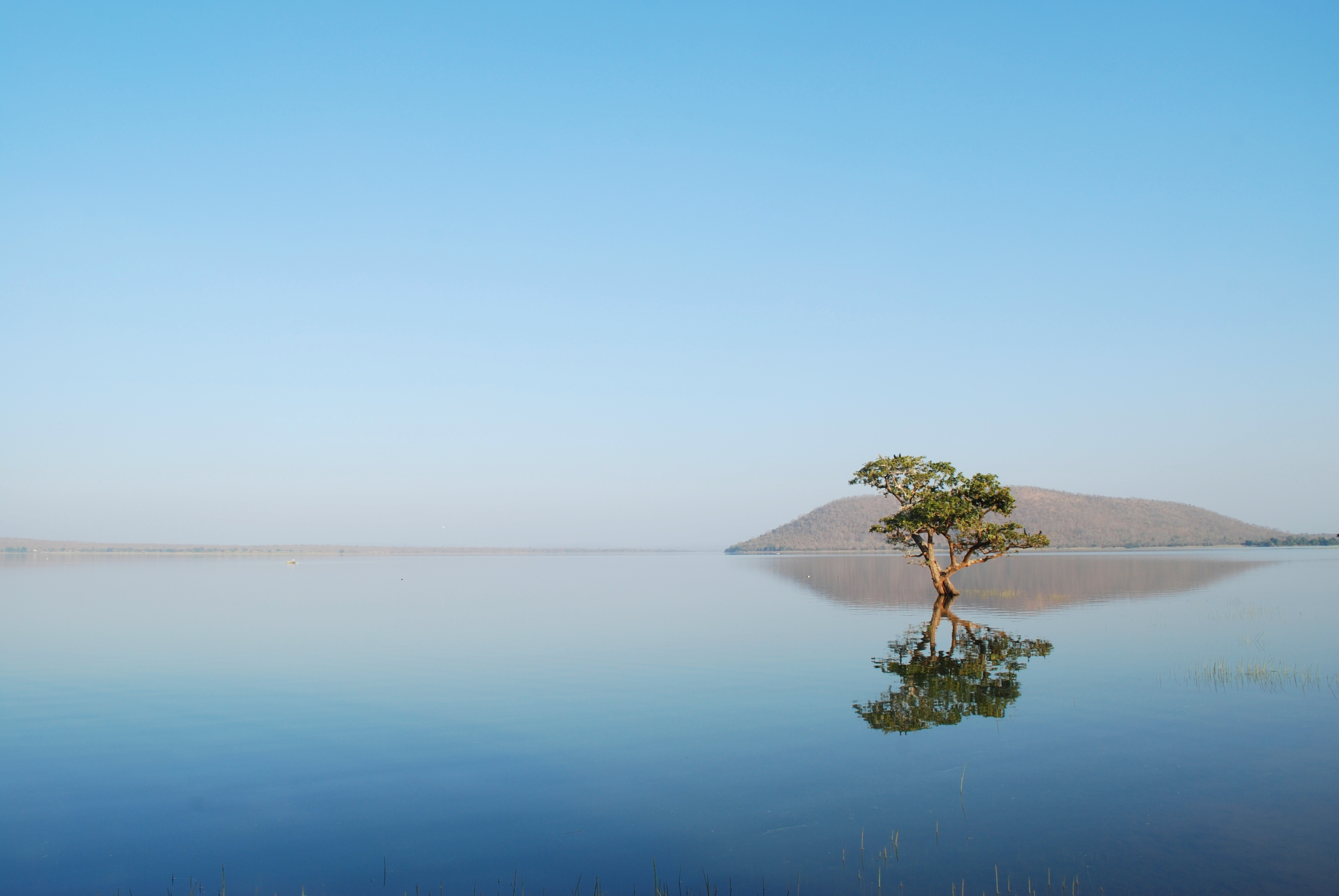 Our drive to Bhadrachalam took us thru Pakhal forest, where we came across this pristine lake. We were the only tourists at the place! Pakhal lake (Andhra Pradesh, India) is easily one of the most beautiful lakes I have seen, if not the best of the lot.